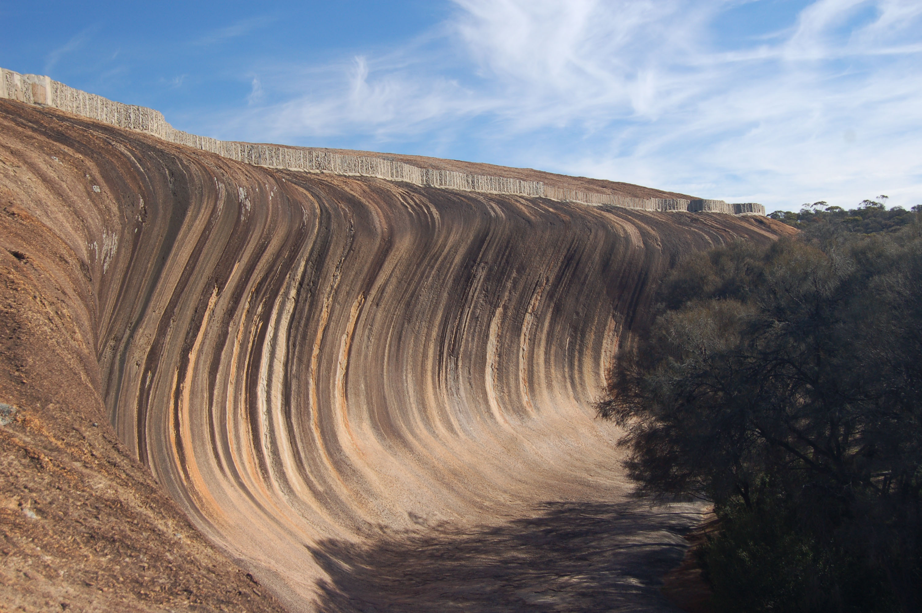 Wave Rock, Australia